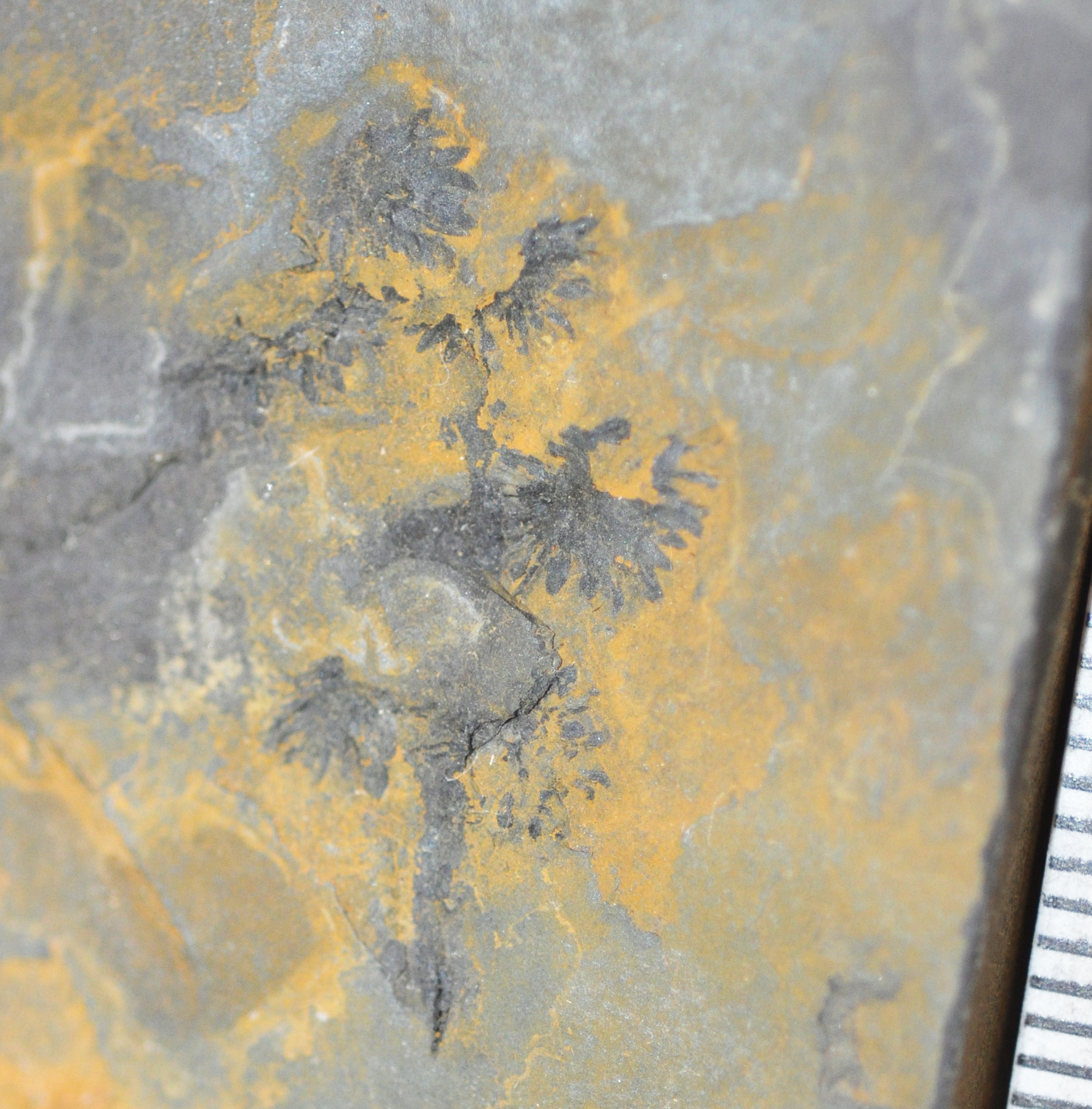 Microsporophyll of extinct seed from from the Umkomaas locality of South Africa Condon Collection number F108270